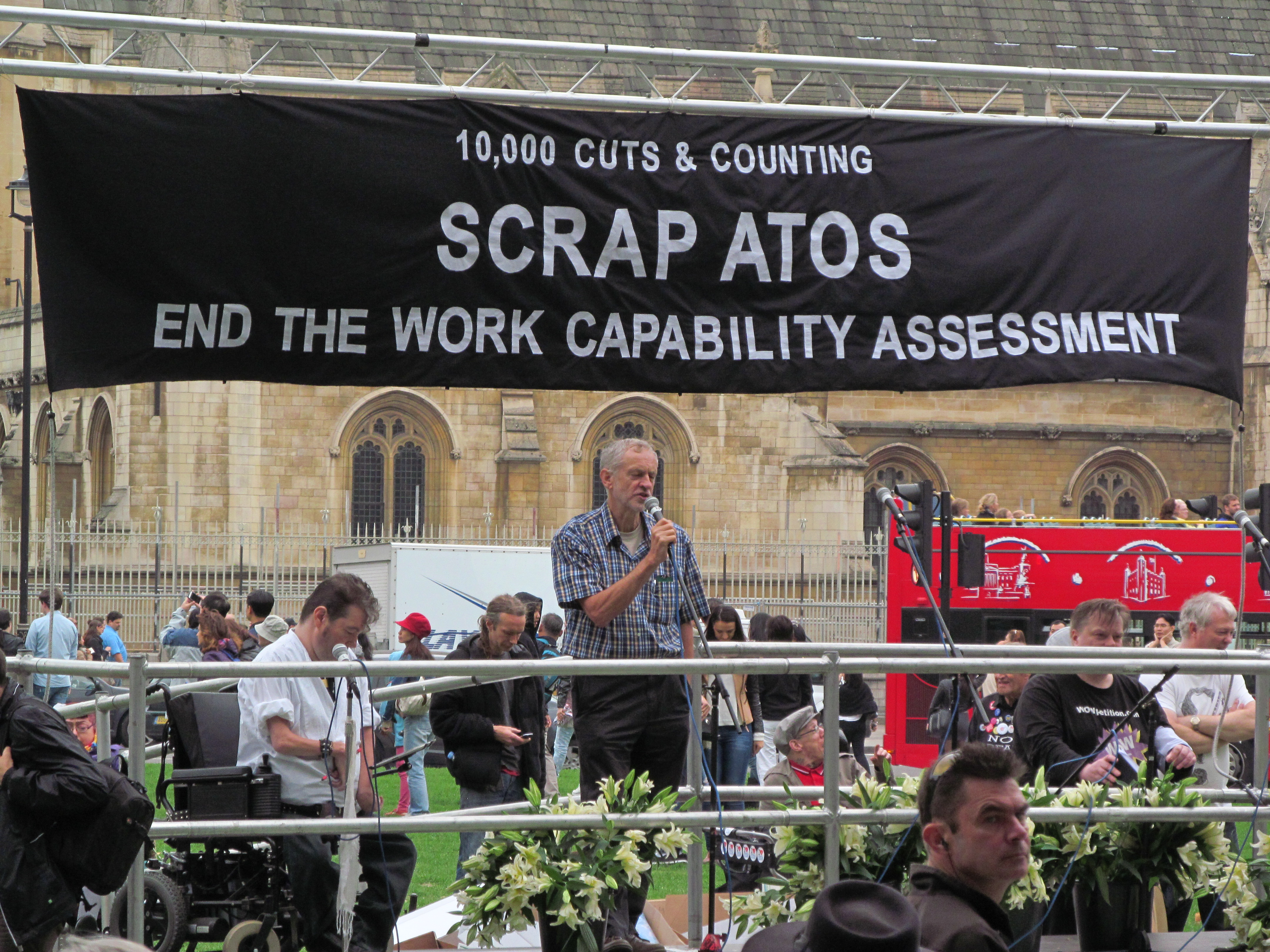 London September 28 2013 012 Jeremy Corbyn speaking at ATOS Demo